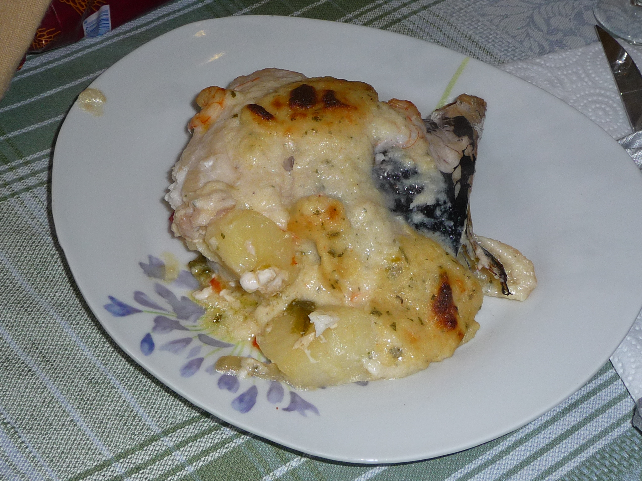 Hake cooked in the oven with Béchamel sauce